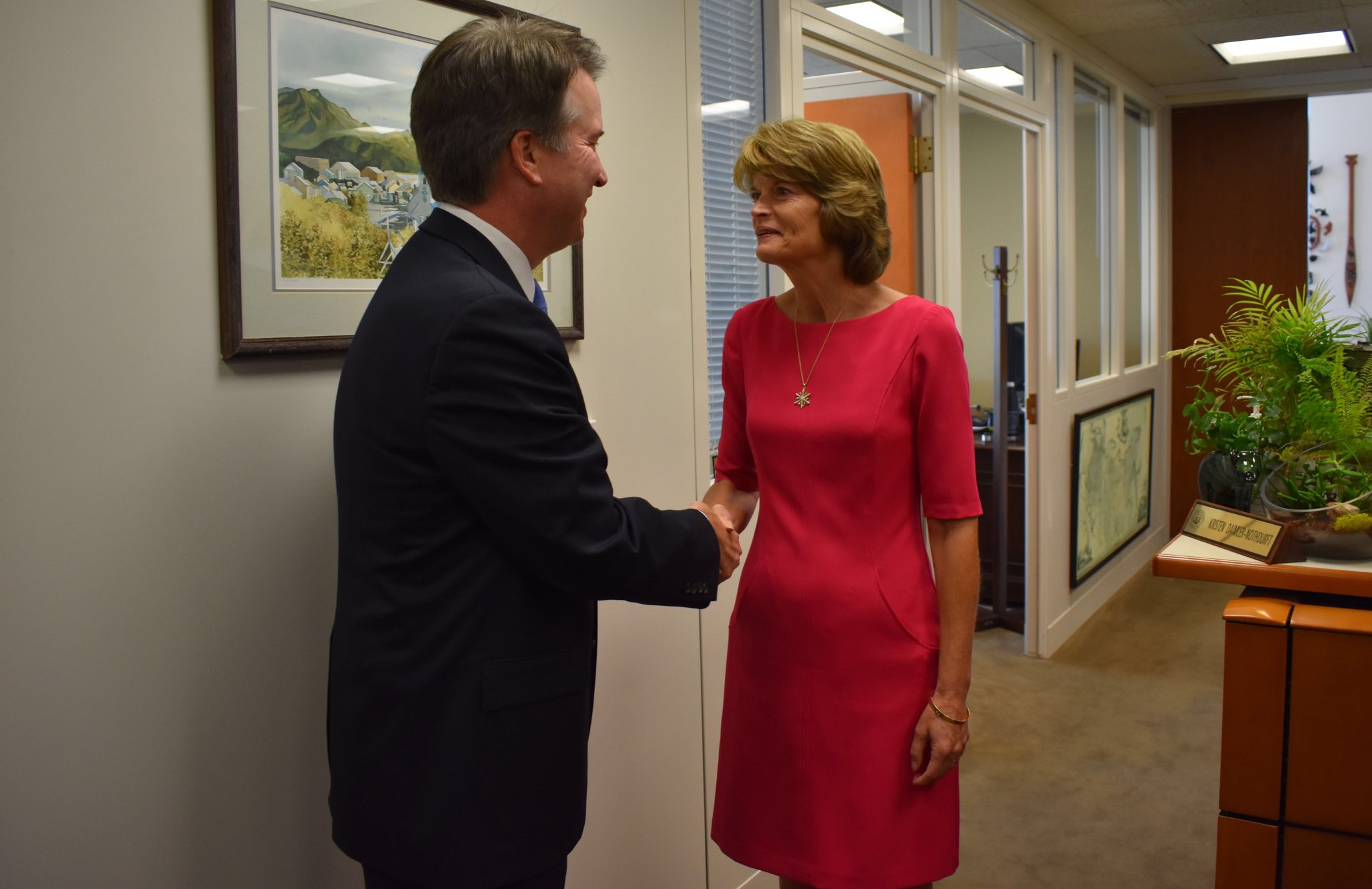 Lisa Murkowski Meets with Supreme Court Nominee Brett Kavanaugh